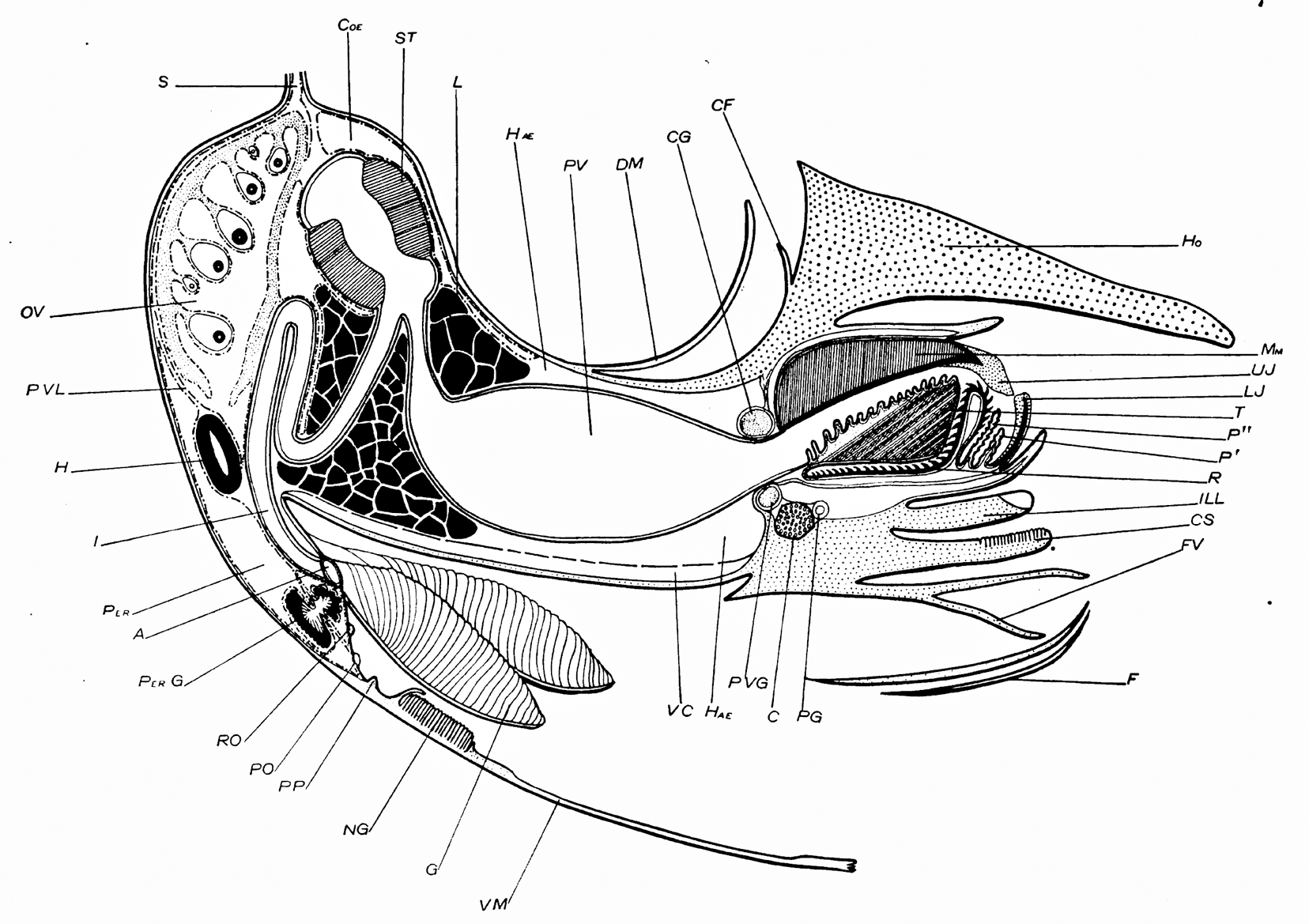 Diagramatic longitudinal section of a female Nautilus pompilius. S=Siphuncle, Coe=Coelum, ST=Stomach, L=Liver, Hae=Hemocele, PV=Proventriculus (crop), DM=Dorsal Mantle, CG=Cerebral Ganglion, CF=Crescental Fold, Ho=Hood, Mm=Mantibular Muscle, UJ=Upper Jaw, LJ=Lower Jaw, T=Tongue, P' and P =Prelingual Processes, R=Radula, ILL=Infra-labial Lobe, CS=Cephalic Sheath, FV=Funnel Valve, F=Funnel, PG=Pedal Commissure, C=Cartilage, PVG=Pleuro-Visceral Ganglion, VC=Vena Cava, VM=Ventral Mantle, G=Gills, NG=Nidamental Gland (female only), PP=Preanal Papilla, PO=Pericardial Pore, RO=Renal Pore, Per G=Pericardial Gland, I=Intestine, H=Heart, PVL=Pericardial Division of Coelum, OV=Ovaries.